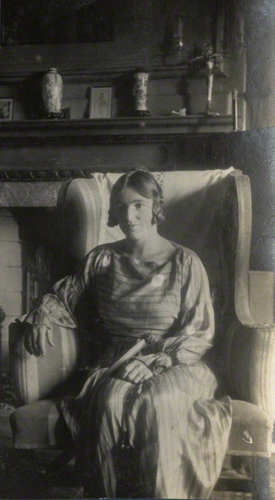 Dora Winifred Russell (née Black) by Lady Ottoline Morrell, 1922 print image size 53 mm x 44 mm Purchased in 2003 by the National Portrait Gallery, London NPG Ax141365